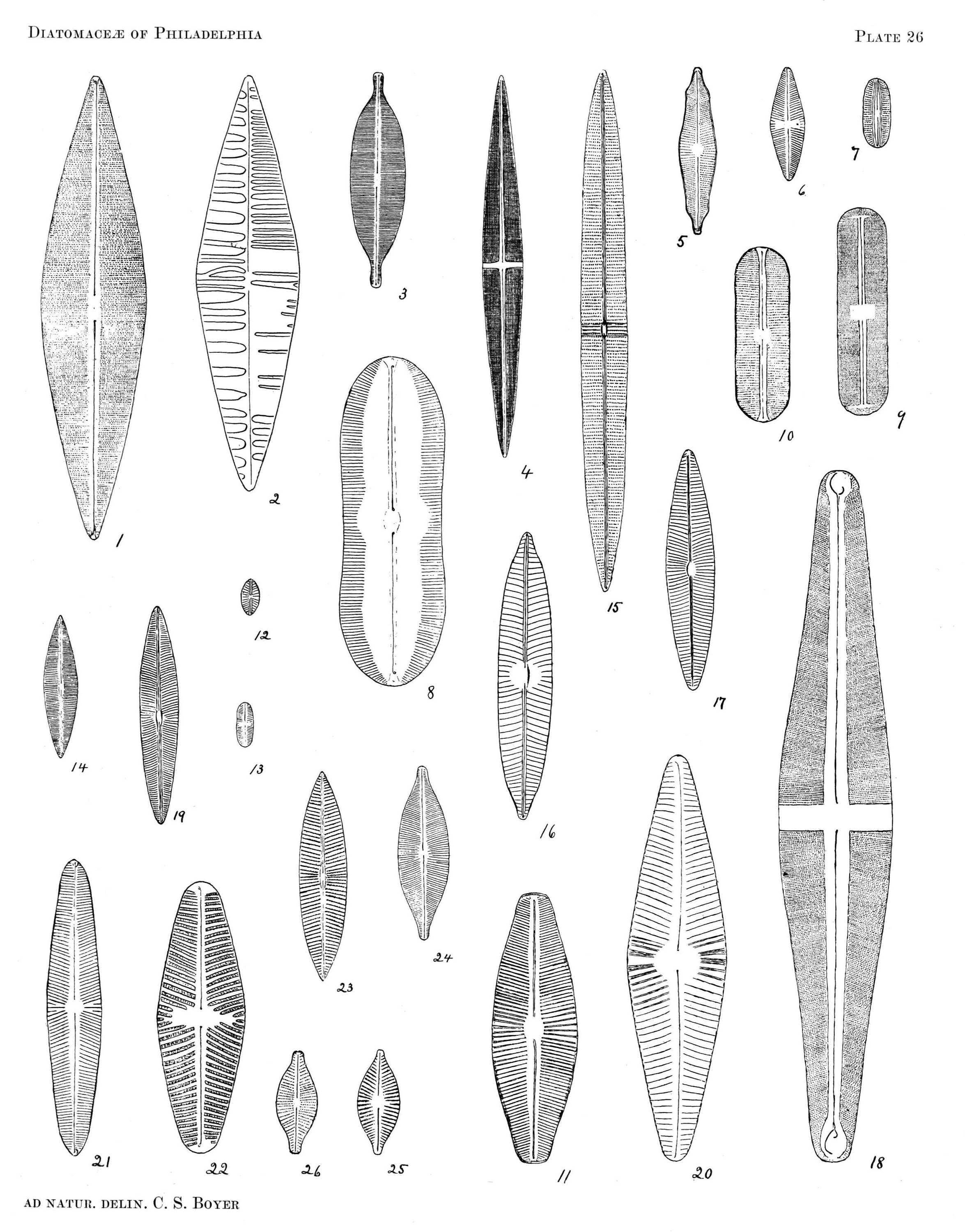 Illustration from Diatomaceae of Philadelphia and Vicinity. Original description follows: PLATE 26 Fig.1-2Navicula cuspidata Kuetz.3Navicula cuspidata var. ambigua (Ehr.) Cl.4Navicula spicula (Hickie) Cl.5Navicula integra Wm. Sm.6Navicula mutica Kuetz.8Navicula americana Ehr.9Navicula pupula var. bacillarioides Grun.10Navicula bacillum Ehr.11Navicula semen Ehr.12Navicula atomus Nægeli.13Navicula minima Grun.14Navicula ramosissima (Ag.) Cl.15Navicula crucigera (Wm. Sm.) Cl.16Navicula viridula var. rostellata Kuetz.17Navicula radiosa Kuetz.19Navicula gracilis var. schizonemoides (Ehr.) V. H.20Navicula peregrina Ehr.21Navicula cyprinus (Wm. Sm.)22Navicula reinhardtii Grun.23Navicula lanceolata var. arenaria (Donk.) Cl.24Navicula salinarum Grun.25Navicula gastrum Ehr.26Navicula anglica Ralfs.7Diploneis oculata (Bréb.) Cl.18Stauroneis frickei var. angusta n. var.